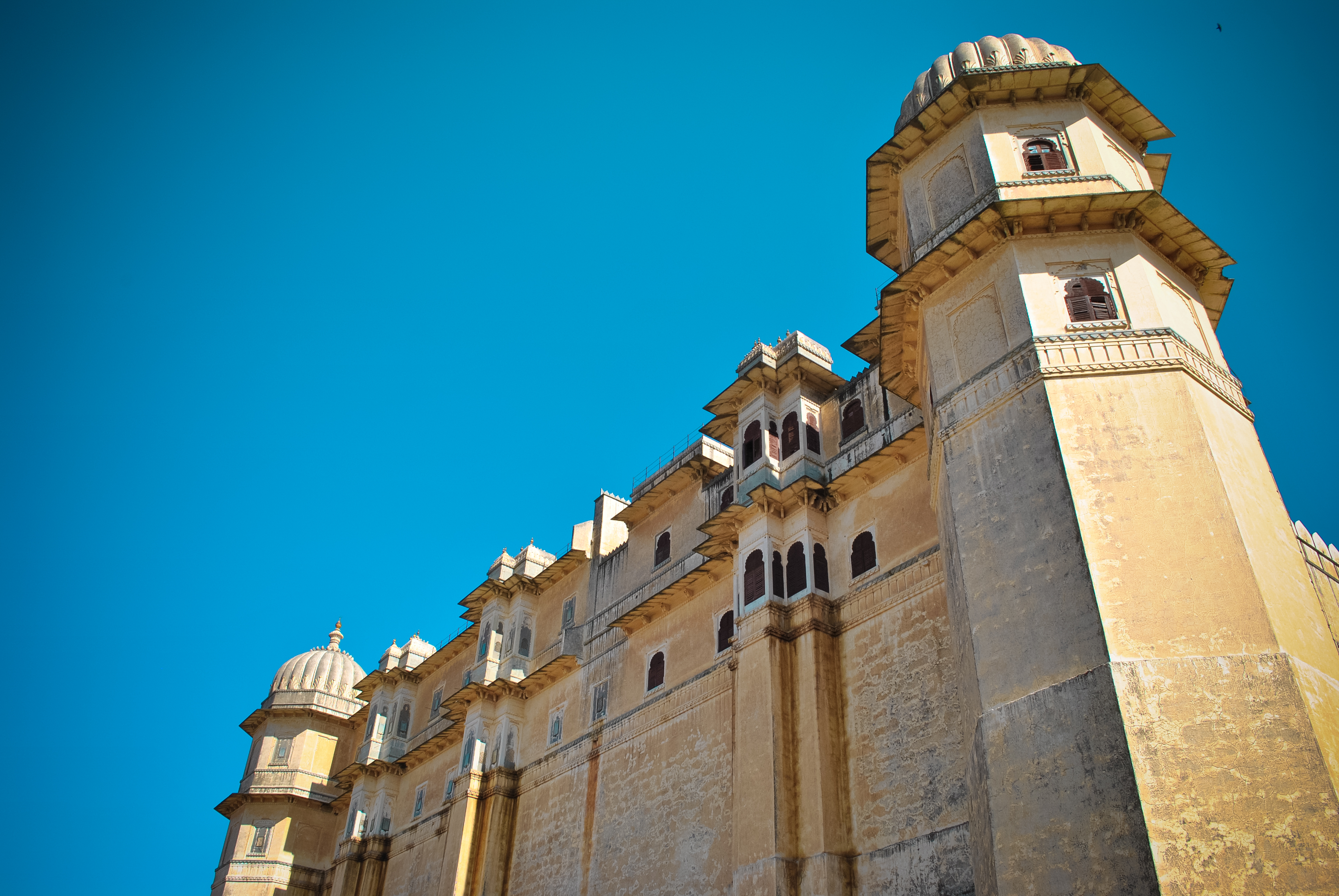 Rajasthan-Kumbhalgarh